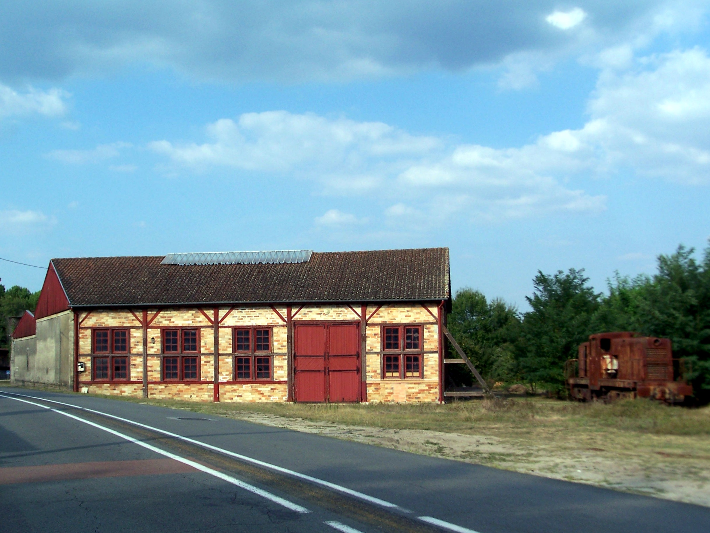 Workshop of the economical railways of Gironde in Saint-Symphorien (Gironde, France)